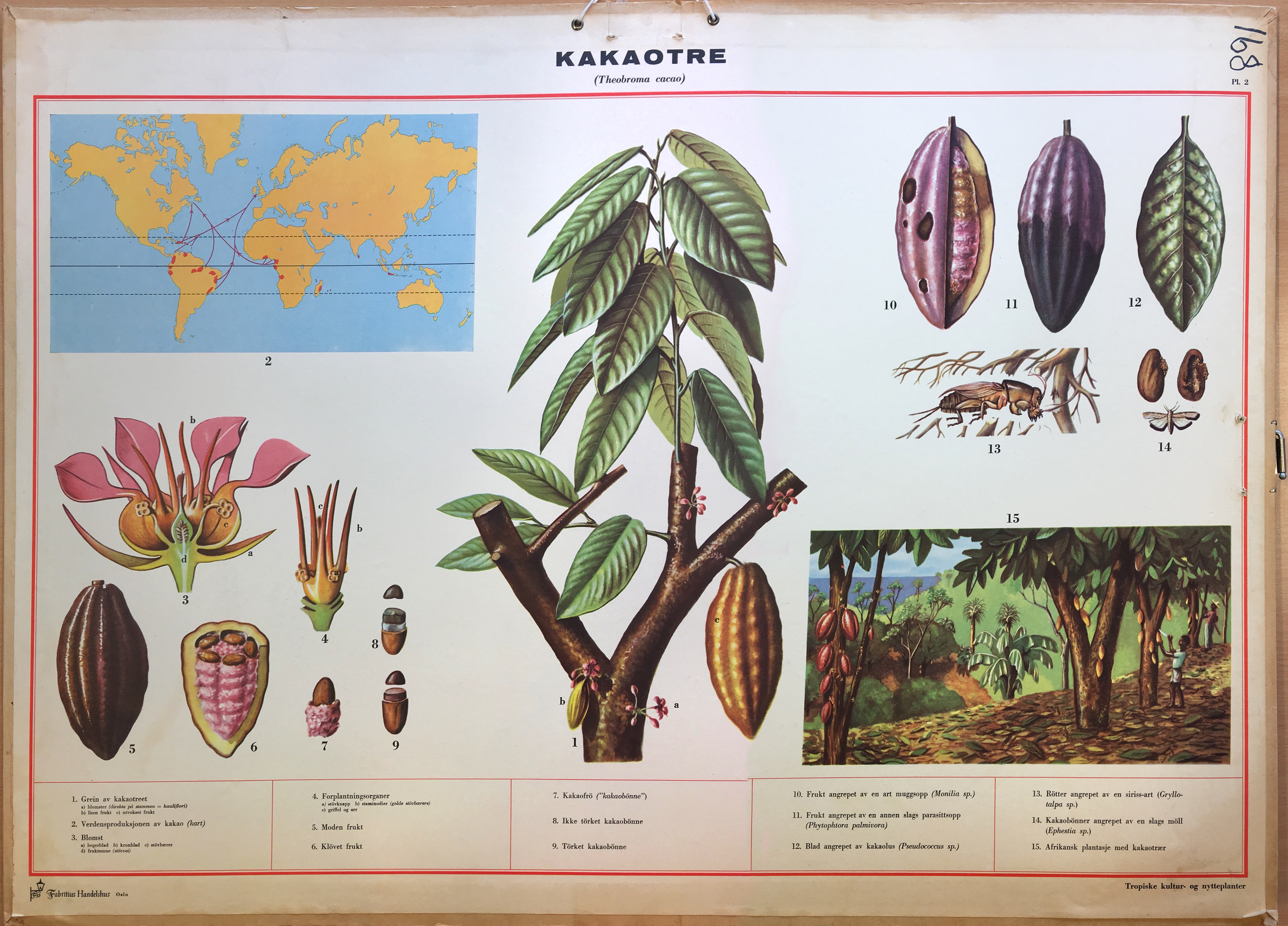 Old, educational plate (printed wall board) with botanical illustrations of Theobroma cacao published by Fabritius Handelshus in Oslo, Norway (in Norwegian: skoleplansje med kakaotre). Found at a primary school in Fusa Municipality, Hordaland, Norway. Photo 2018-03-22 (combined version). "Fabritius Handelshus" was established in 1959 as a branch of "W. C. Fabritius & Sønner" printing company in Oslo, Norway.